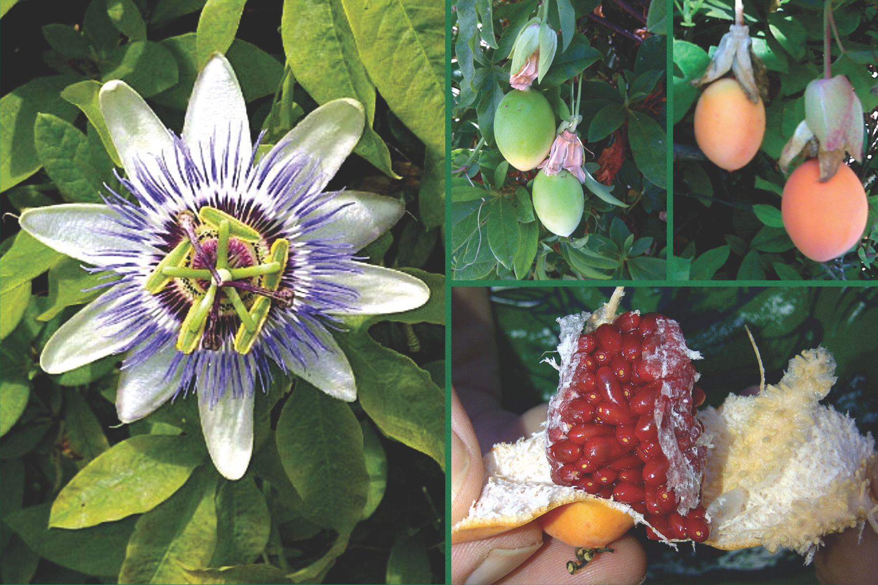 Blue Passion Flower with samples of fruit on the vine and as eaten